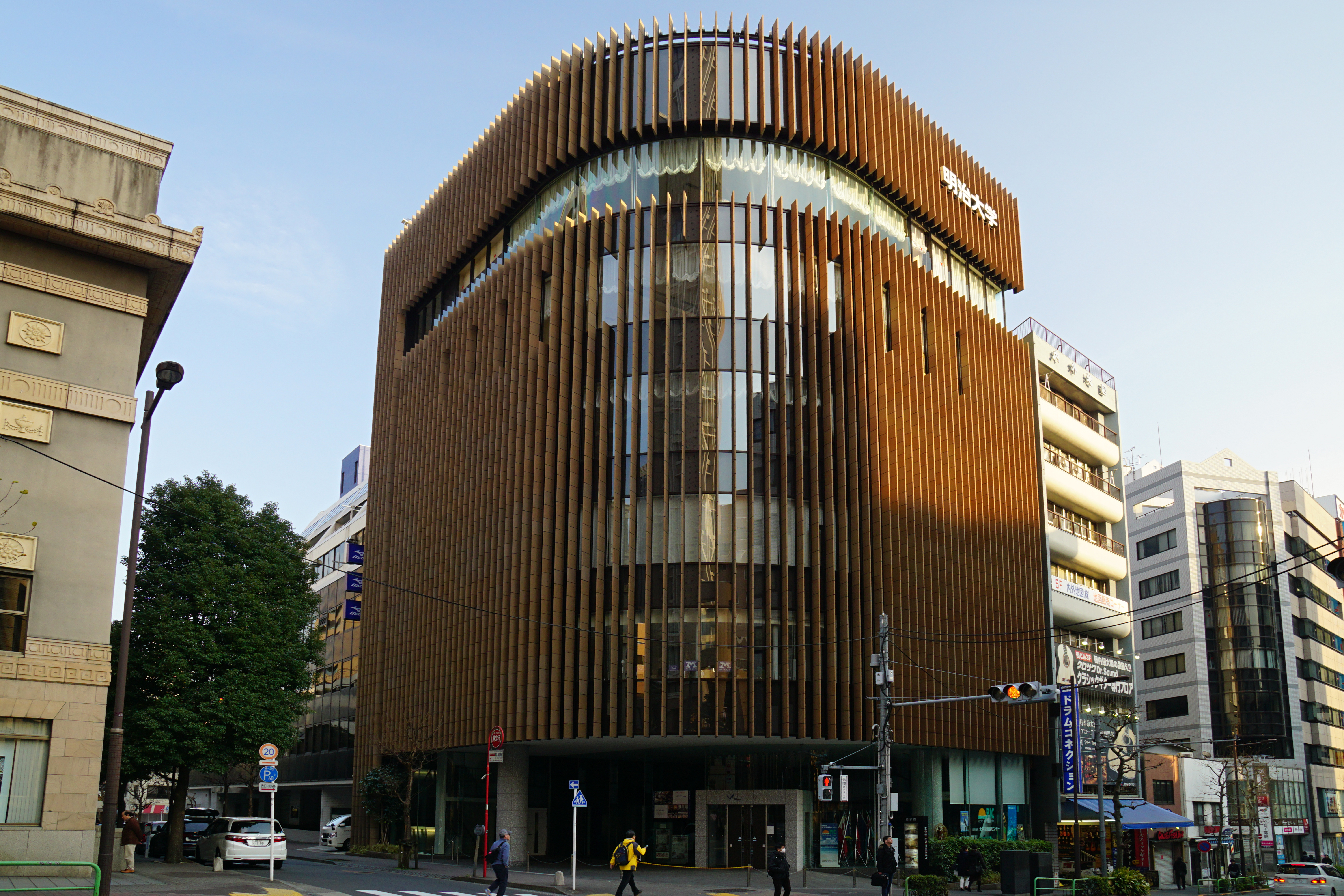 Meiji University Surugadai Campus in Tokyo, Japan